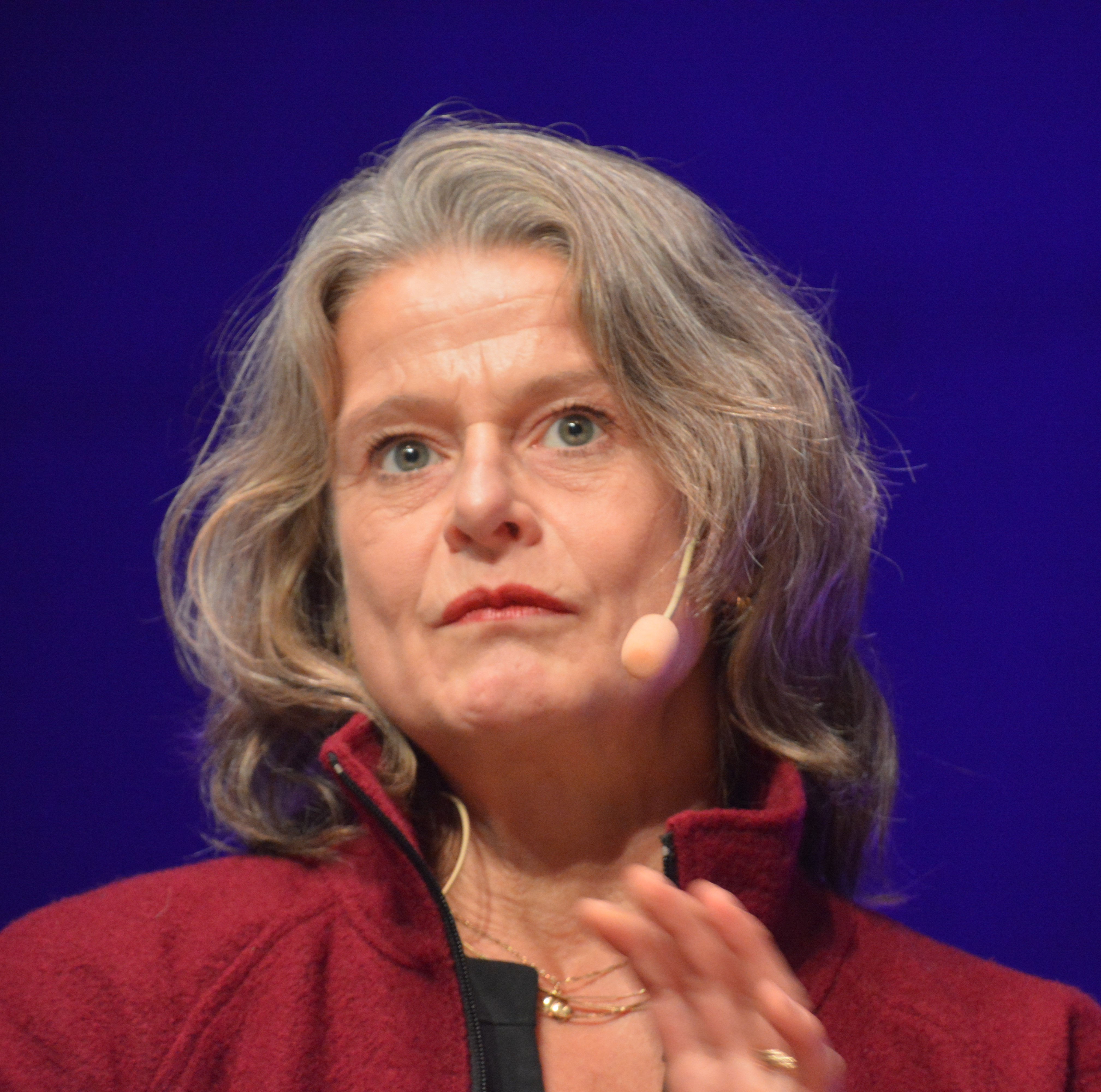 Helena Wessman, Vice-Chancellor of Royal Collage of Music, Stockholm at the symposium "Brain and Culture" at Aula Medica,Octorber 2019